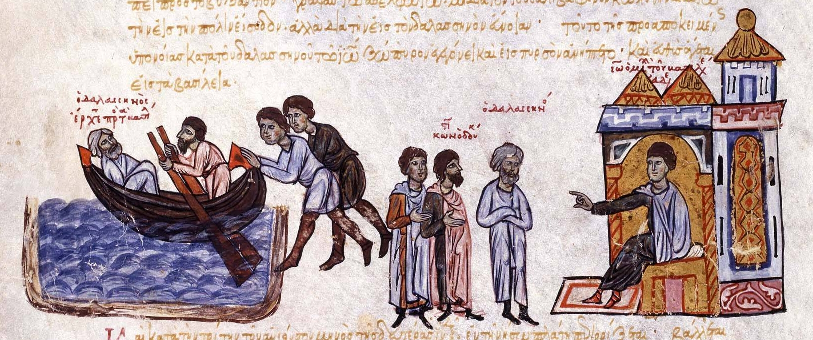 John the Orphanotrophos exilesConstantine Dalassenos to the Island of Plate